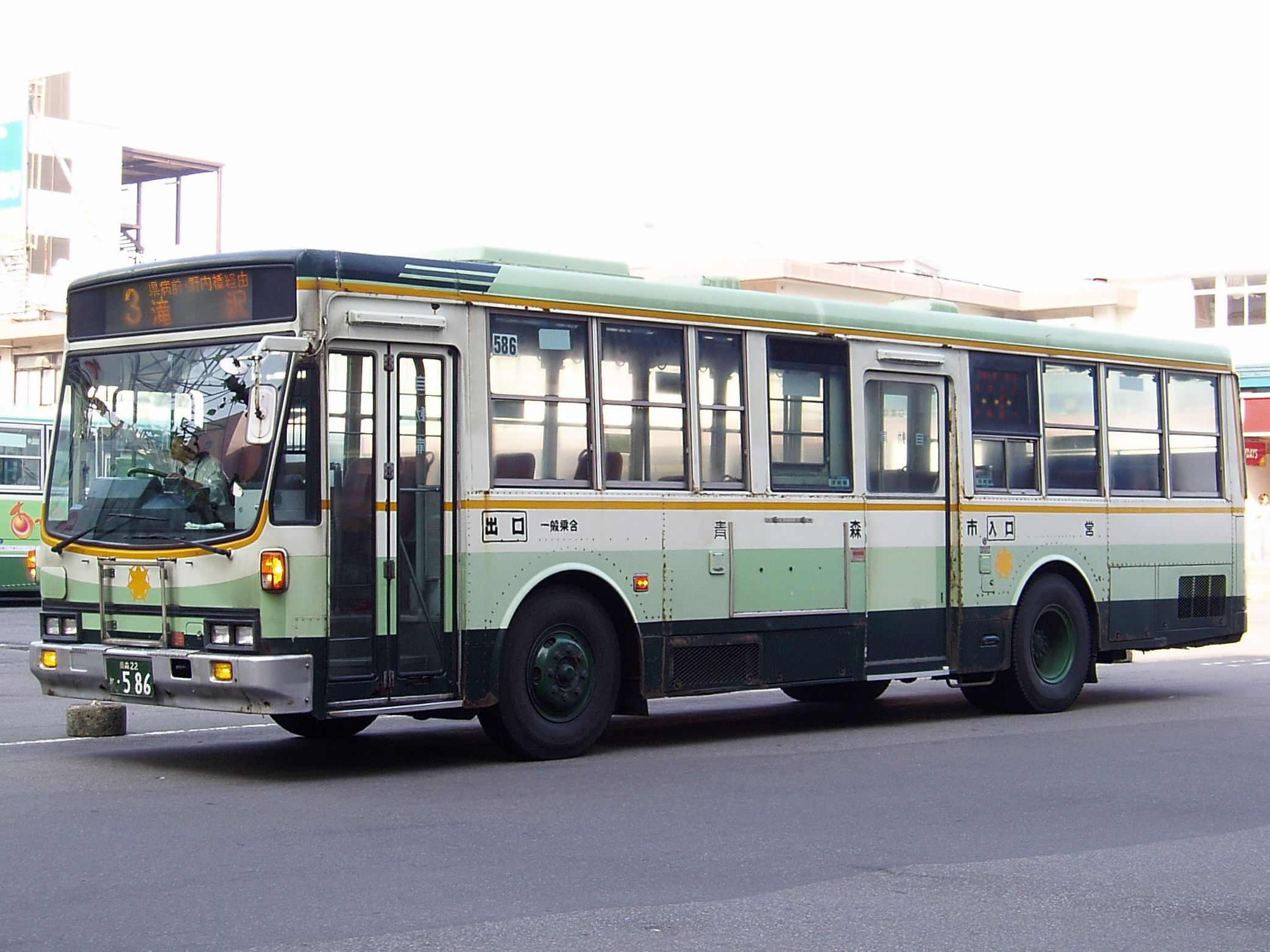 Aomori City Bus Isuzu P-LV214L at Aomori Sta.